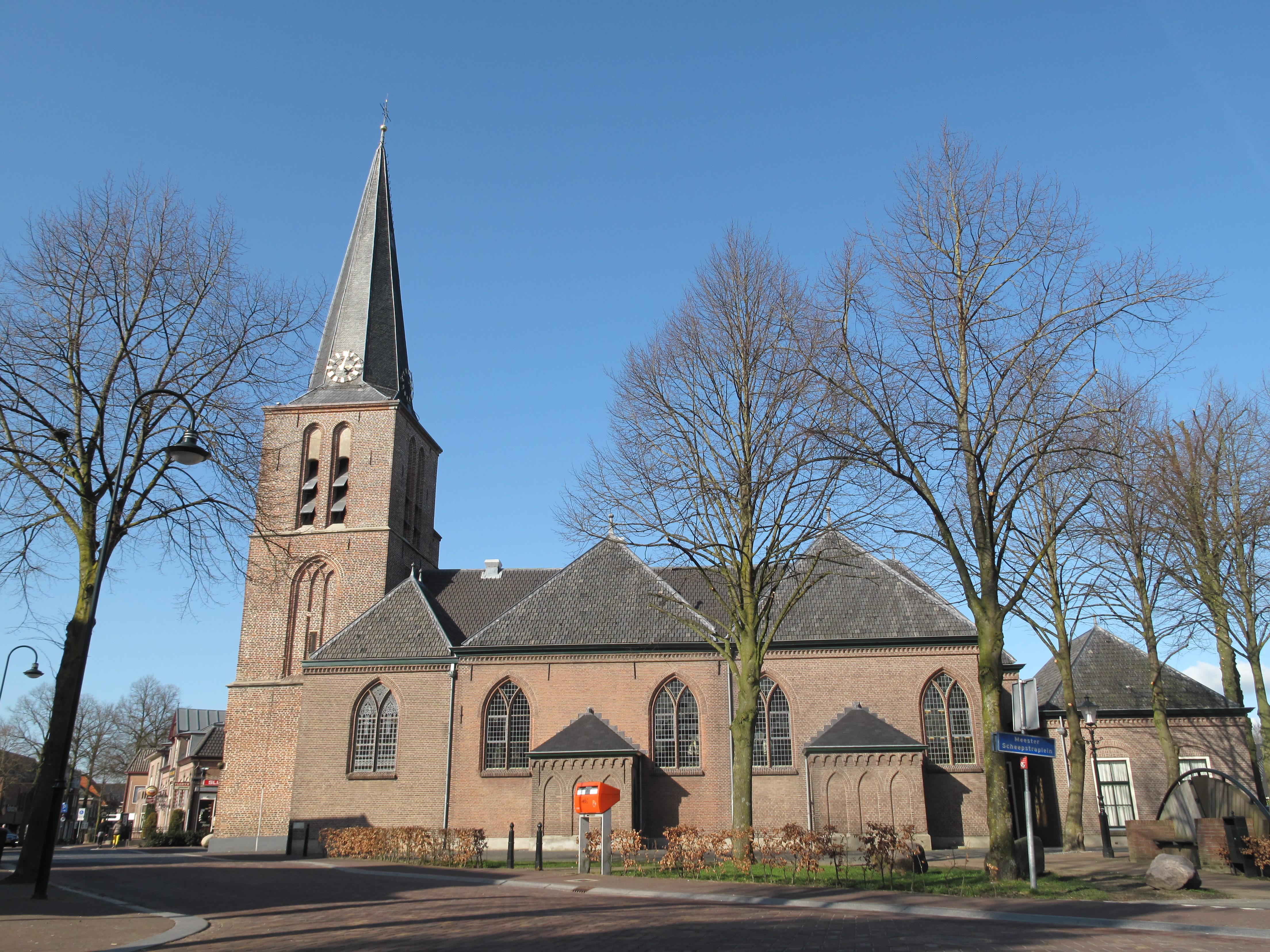 Lunteren, church: de Oude Kerk